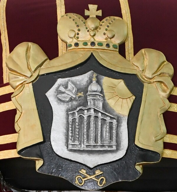 Coat of arms of Greek Orthodox Patriarchate of Jerusalem This file has been extracted from another file: USAID Administrator Mark Green visit to Israel, Aug. 2019 (48593946916).jpg